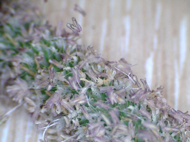 close up of the grass phleum pratense